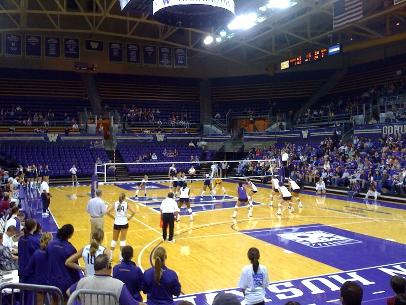 Cal Vs. Washington volleyball match at Hec Ed Pavilion on the campus of the University of Washington. Photo taken on October 3rd, 2008.